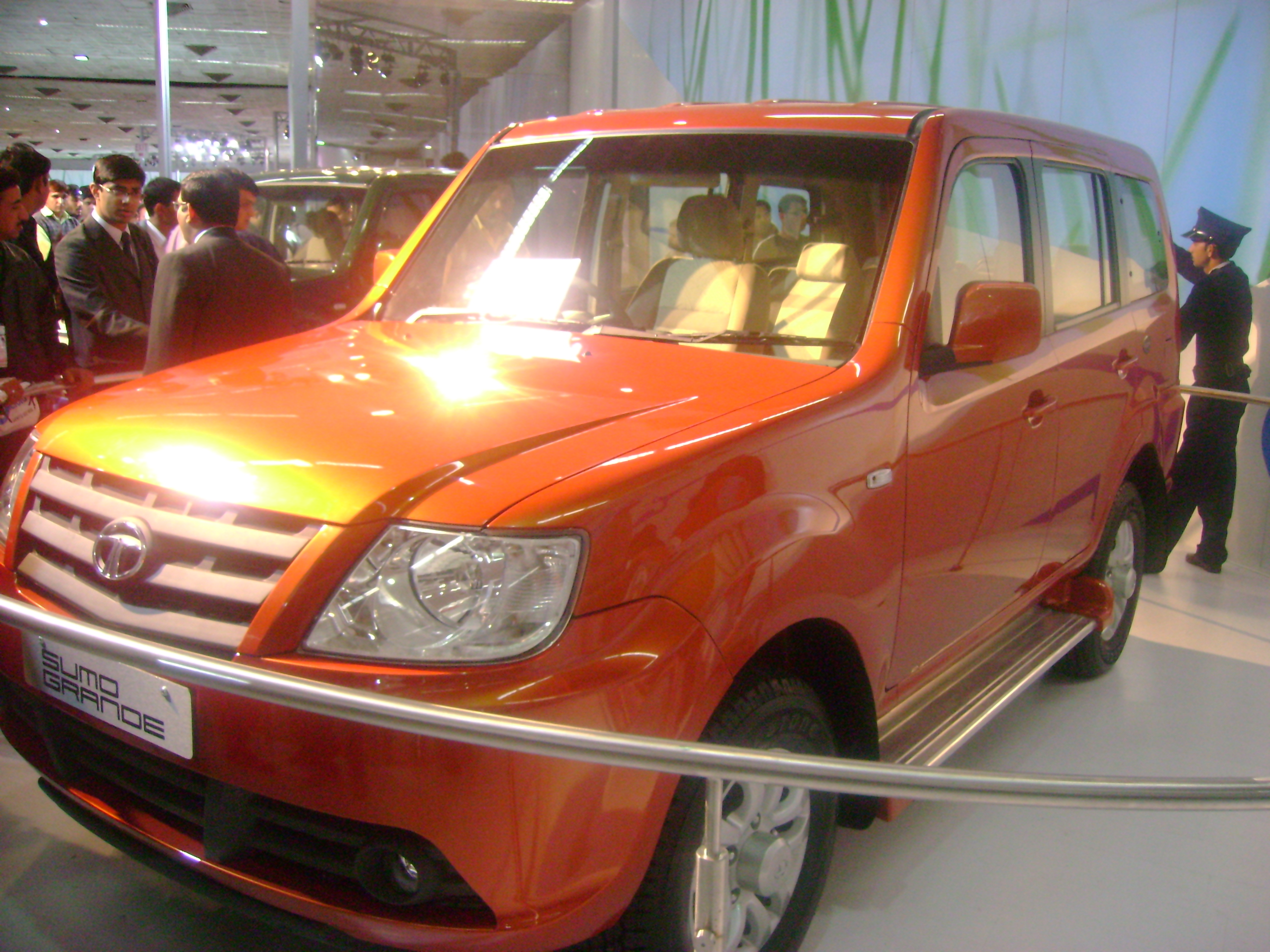 Tata Sumo Grande at 9th Auto Expo Delhi. Kaushal Verma